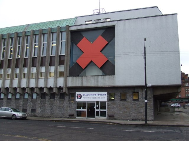 St Andrew's First Aid. Keeping Scotland Safe at the corner of Maitland Street and Milton Street. See also 995663 and 1181576.